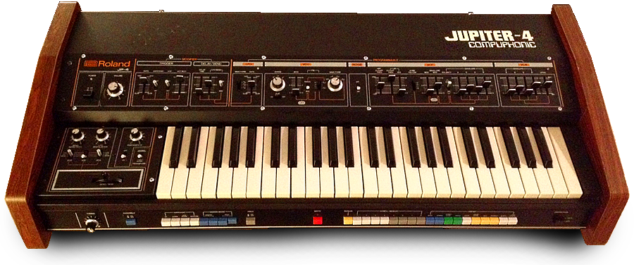 Picture of the Roland Jupiter-4 polyphonic analog synthesizer.